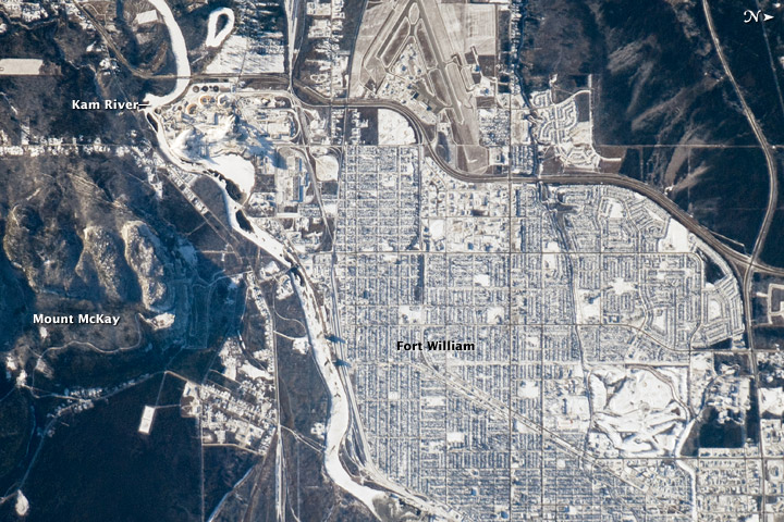 City of Thunder Bay, Ontario, Canada. Astronaut photograph ISS018-E-11174 was acquired on December 6, 2008, with a Nikon D2Xs digital camera fitted with an 800 mm lens, and is provided by the ISS Crew Earth Observations experiment and the Image Science & Analysis Laboratory, Johnson Space Center. The image was taken by the Expedition 18 crew. The image in this article has been cropped and enhanced to improve contrast. Lens artifacts have been removed.